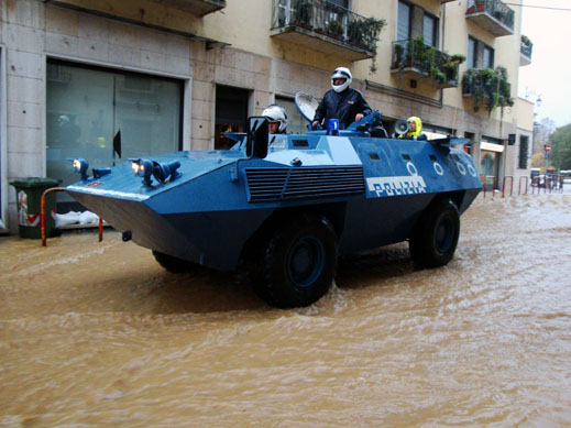 Street flooding in the historic downtown section of Vicenza, Italy, Nov. 1, 2010. U.S. Army photos by Jim McGee